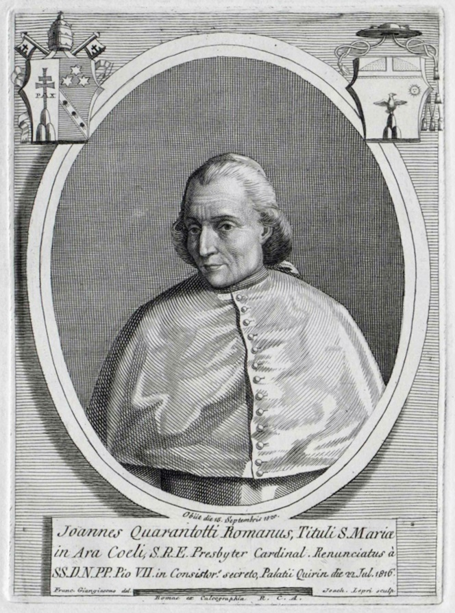 Kardinal Giovanni Battista Quarantotti (1733-1820)